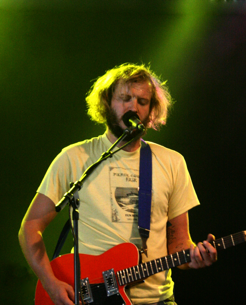 Justin Vernon with Bon Iver performing at Way Out West